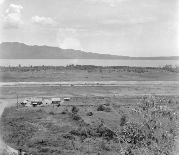 Laha airfield, Ambon (as seen on December 15, 1945). Site of the Laha massacre, February 1942. The airfield was the site of a stand by the Australian 2/21st Battalion and other Gull Force units, which surrendered to Japanese forces on February 3, 1942. The Bay of Ambon is in the background. In 1945, the airfield became the headquarters of the Australian 33rd Brigade.(Photographer: Staff Sergeant R. L. Stewart.)